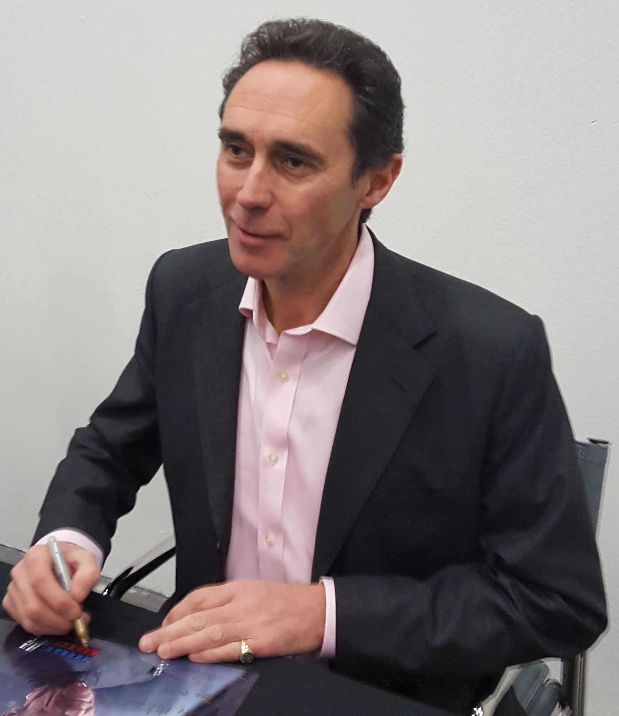 Guy Henry, British actor at Stockholm International Fairs in 2018.